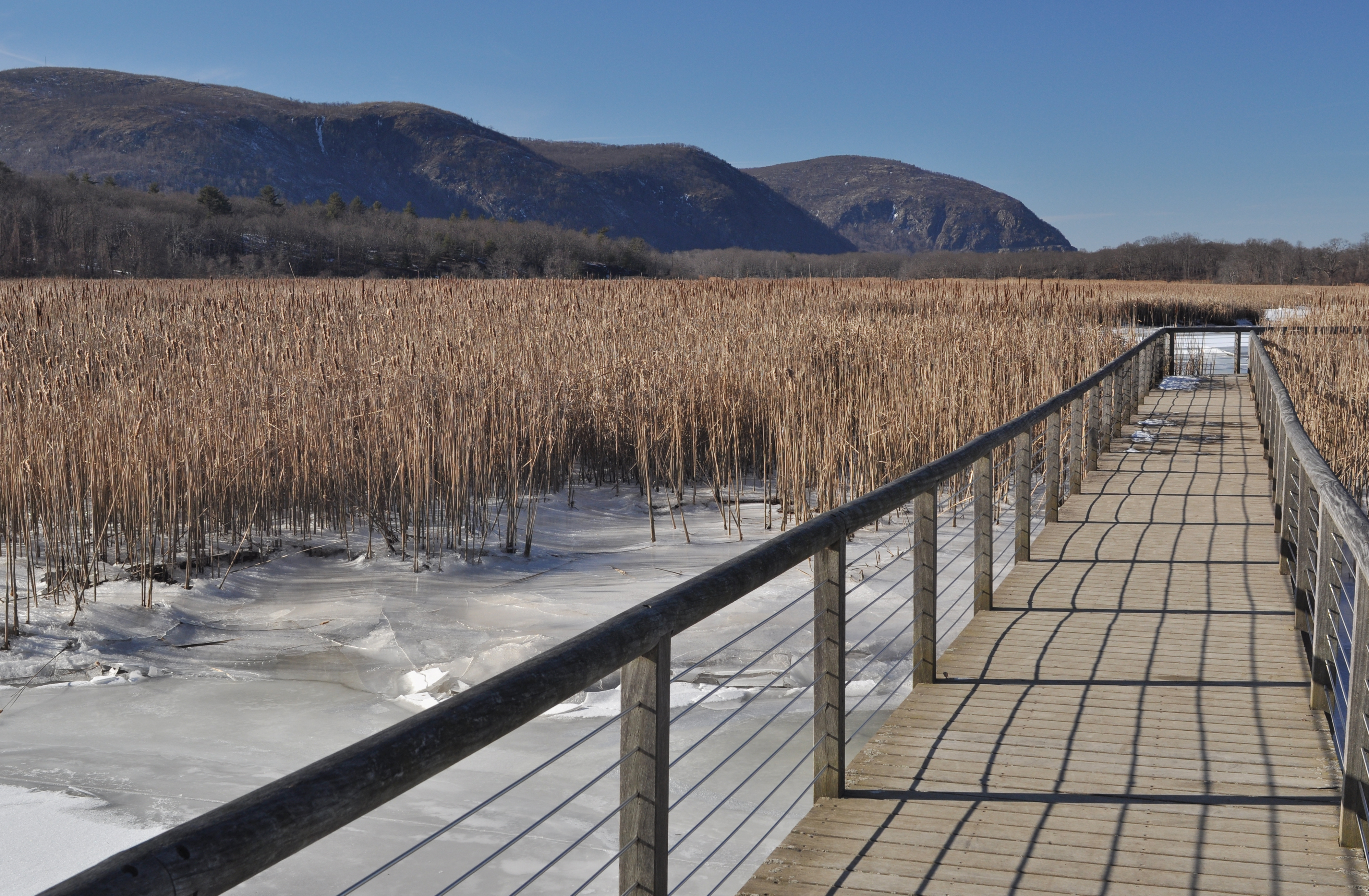 The boardwalk through Constitution Marsh in Garrison, New York, USA, in winter. View northwest toward the Hudson Highlands.